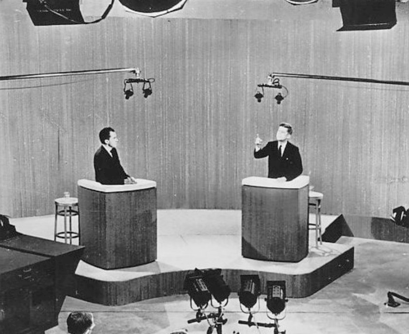 Photo of the Kennedy Nixon debate held in New York on October 21, 1960. This was held at ABC in New York and was the last of the four debates.